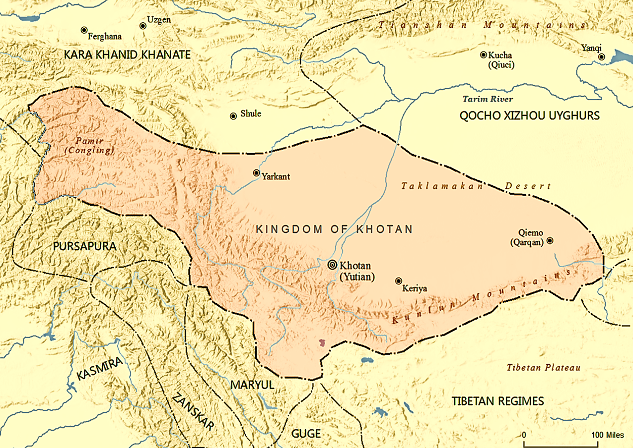 Map of the Kingdom of Khotan (Yutian) as of 1001 AD